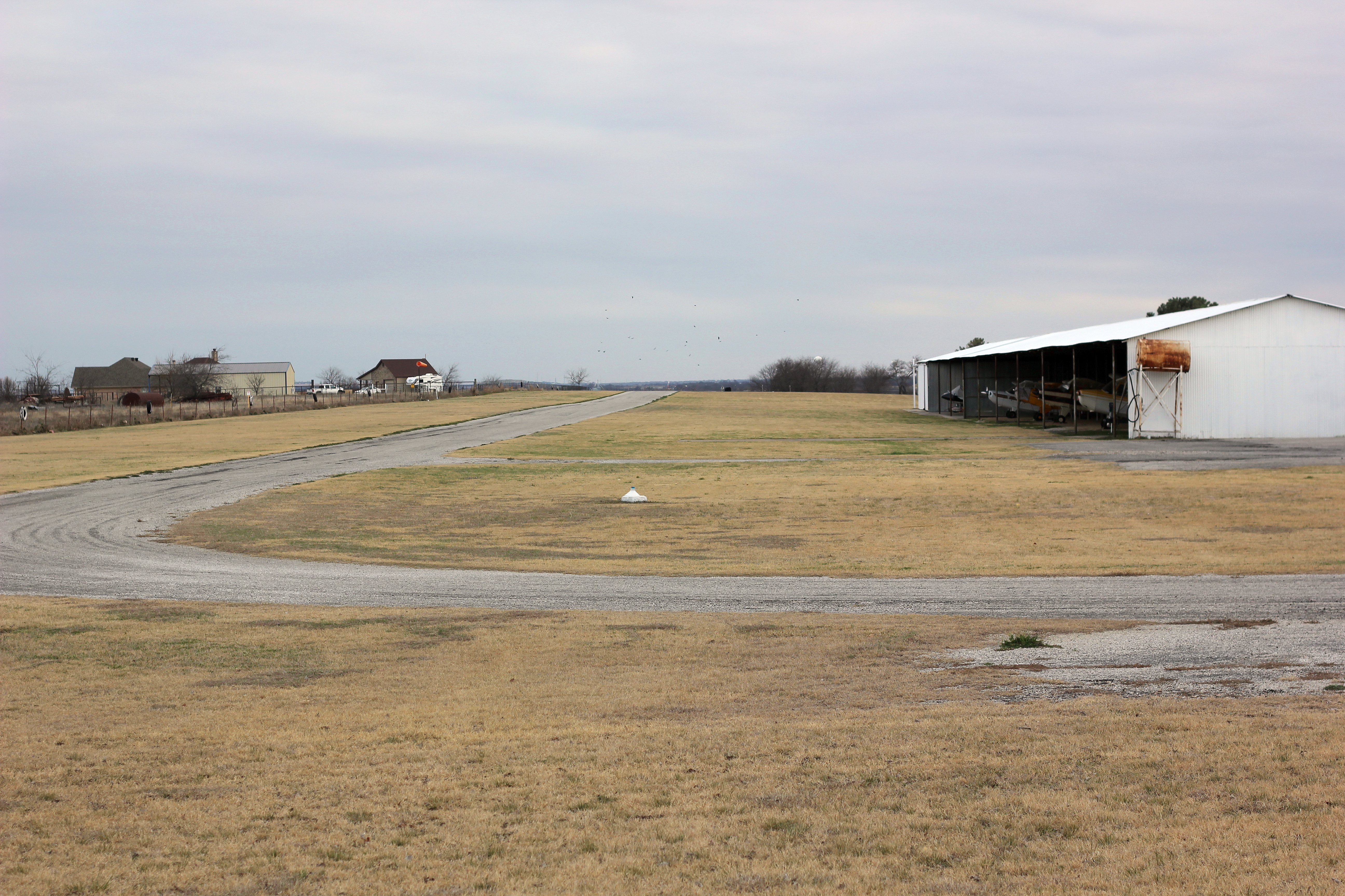 Clark Airport, Denton County, Texas.